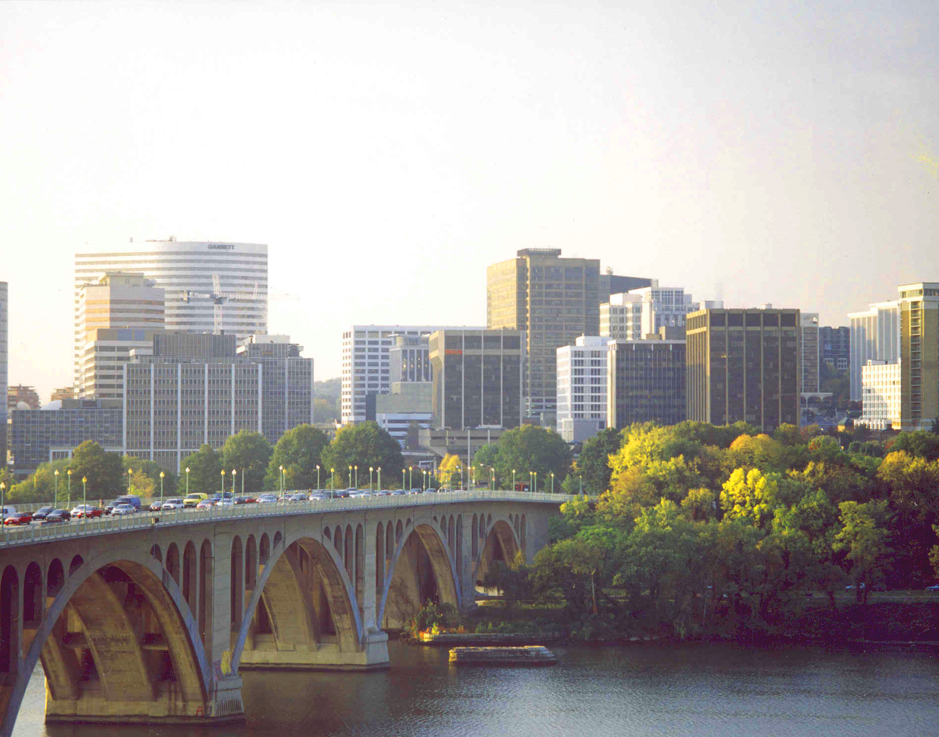 Francis Scott Key Bridge with Rosslyn in the background